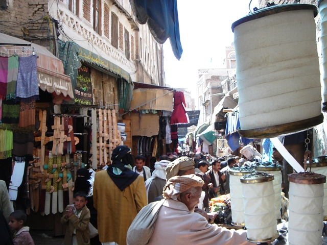 A market near Bab-Al Yemen in Sana'a, Sana'a.